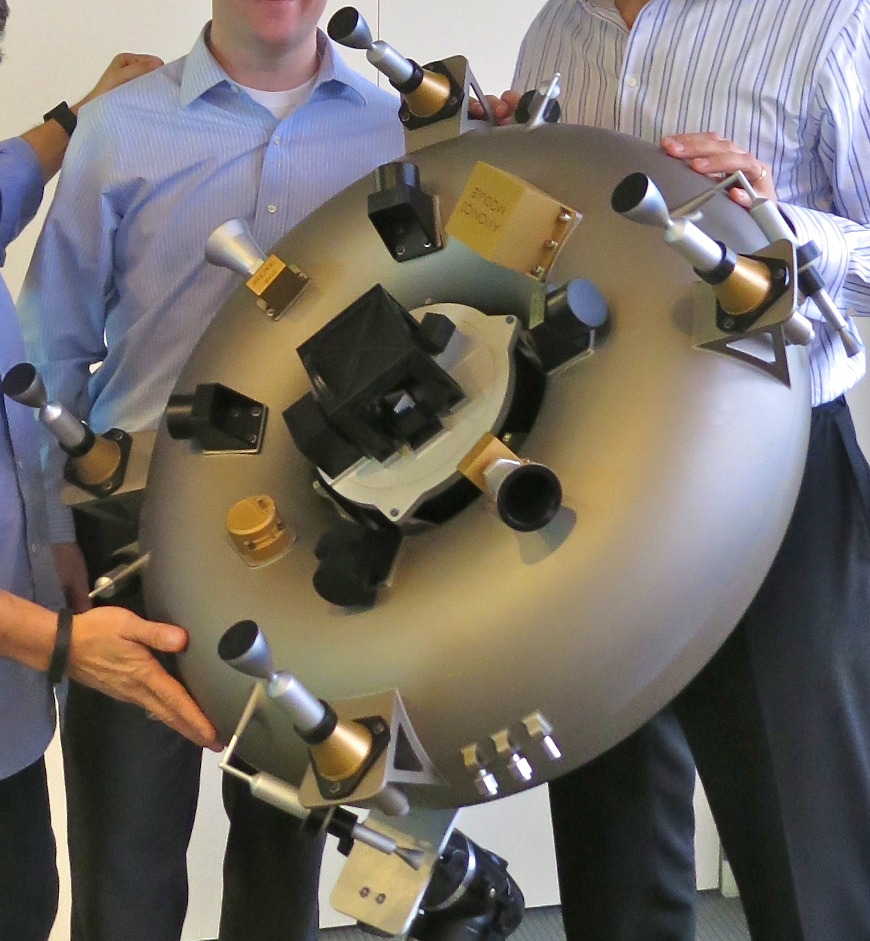 7 February 2014 unveiling of the 3D-Printed Satellite from Planetary Resources. The torus holds the propellant and provides the satellite bus structure for the satellite. "All of my photos are free to use forever with a simple photo credit: photo by Jurvetson (flickr)"